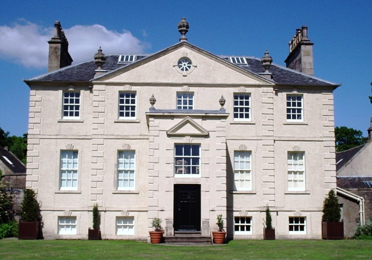 Greenbank House. Georgian town house built for the Glasgow merchant Robert Allason in 1764.